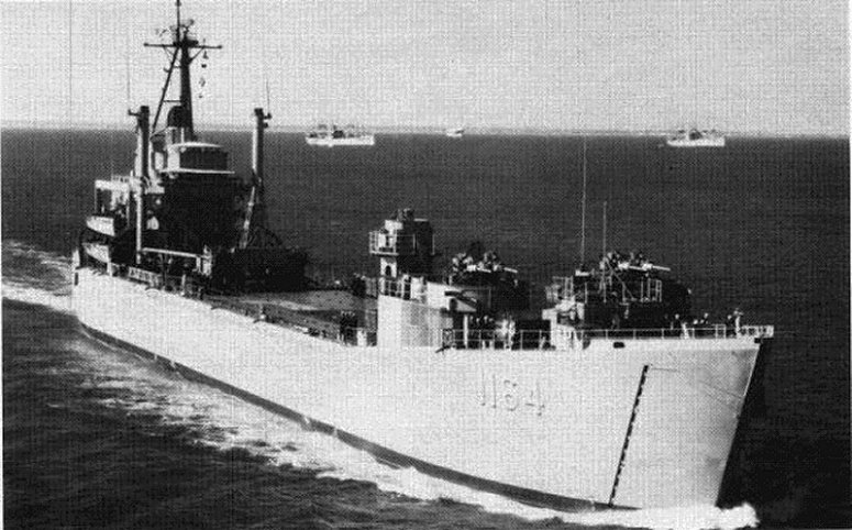 United States Navy landing ship tank USS Walworth County (LST-1164) sometime between 1953 and 1975